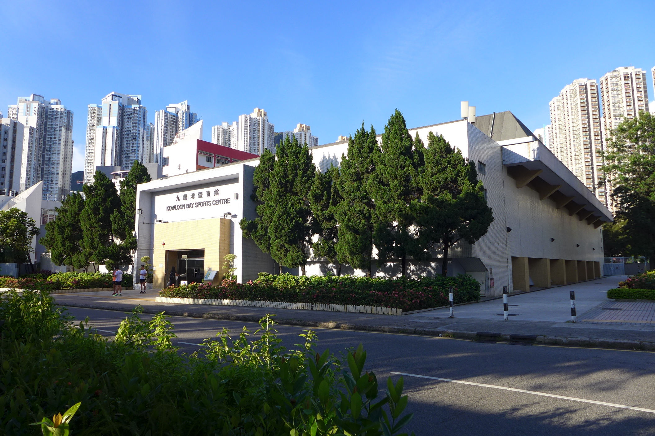 Kowloon Bay Sports Centre